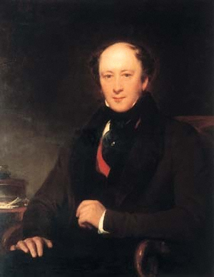 Painting of James Planché from 1835.